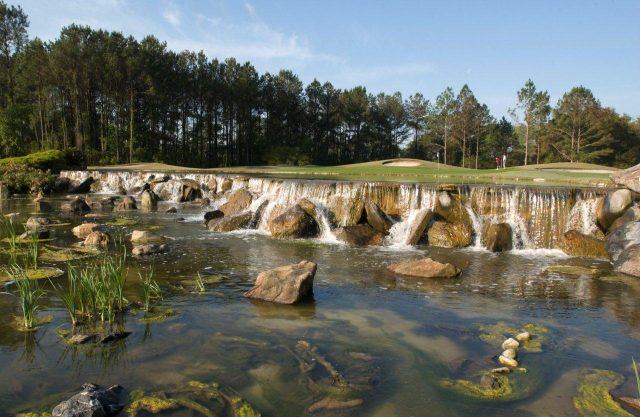 White Oak's signature hole features waterfalls.